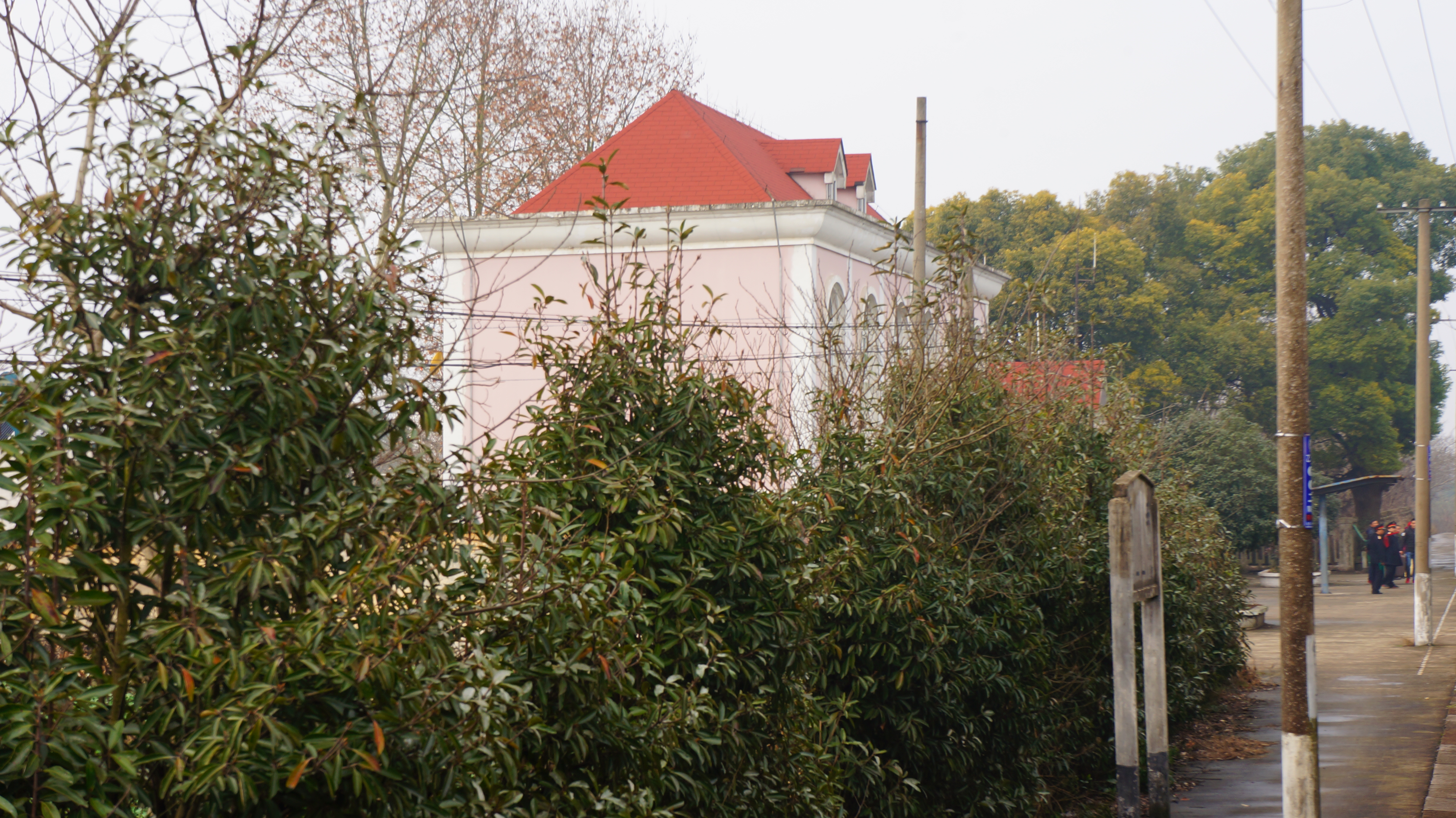 201406,Taoxin Railway Station